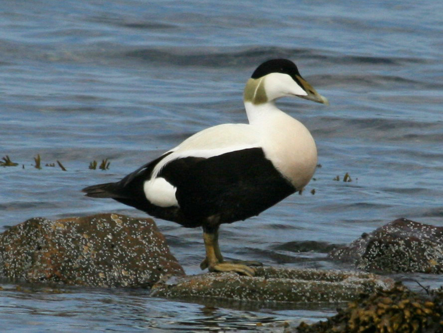 Common Eider (Somateria mollissima) - Scotland